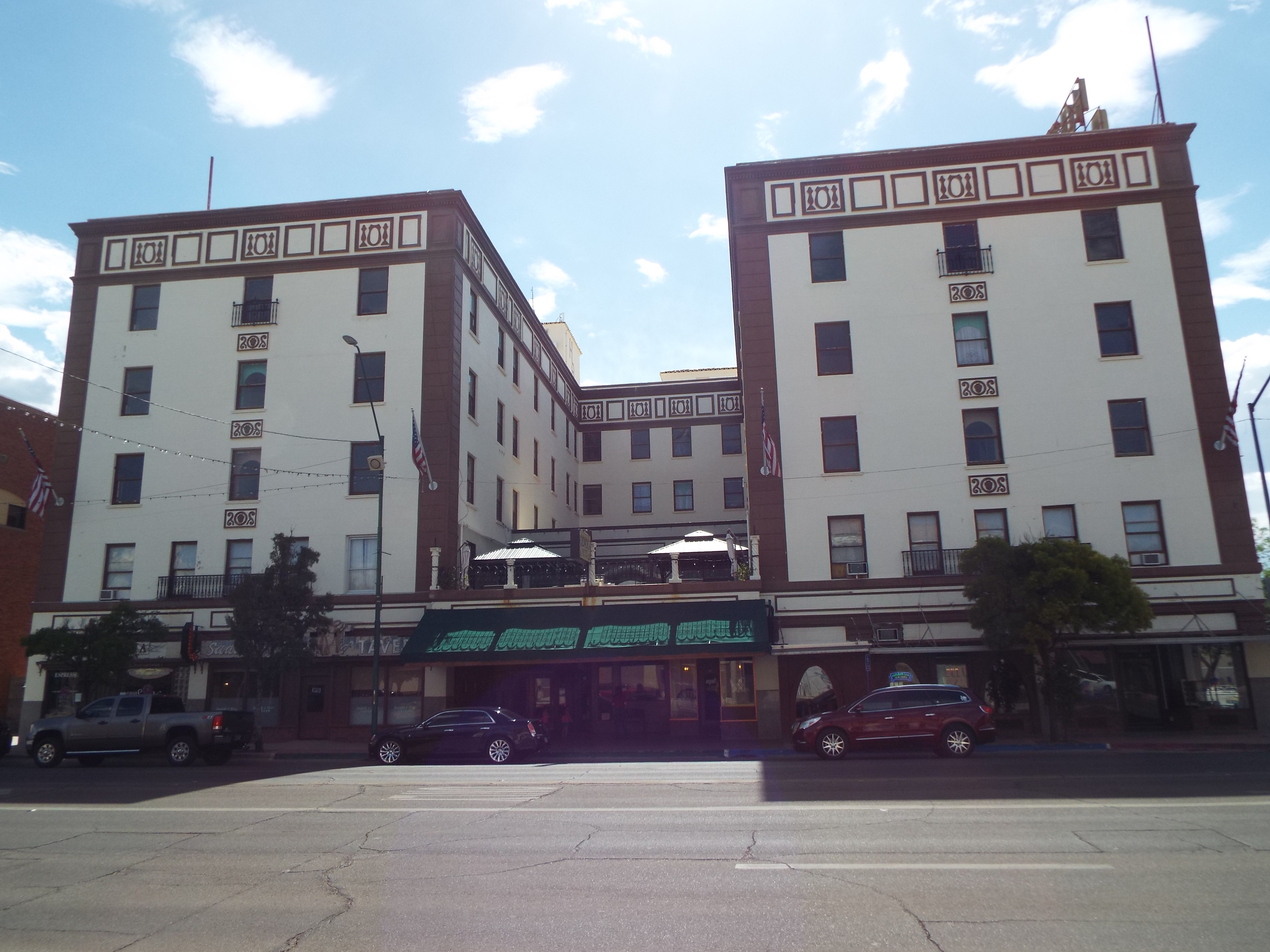 Hotel Gadsden in Douglas, Arizona